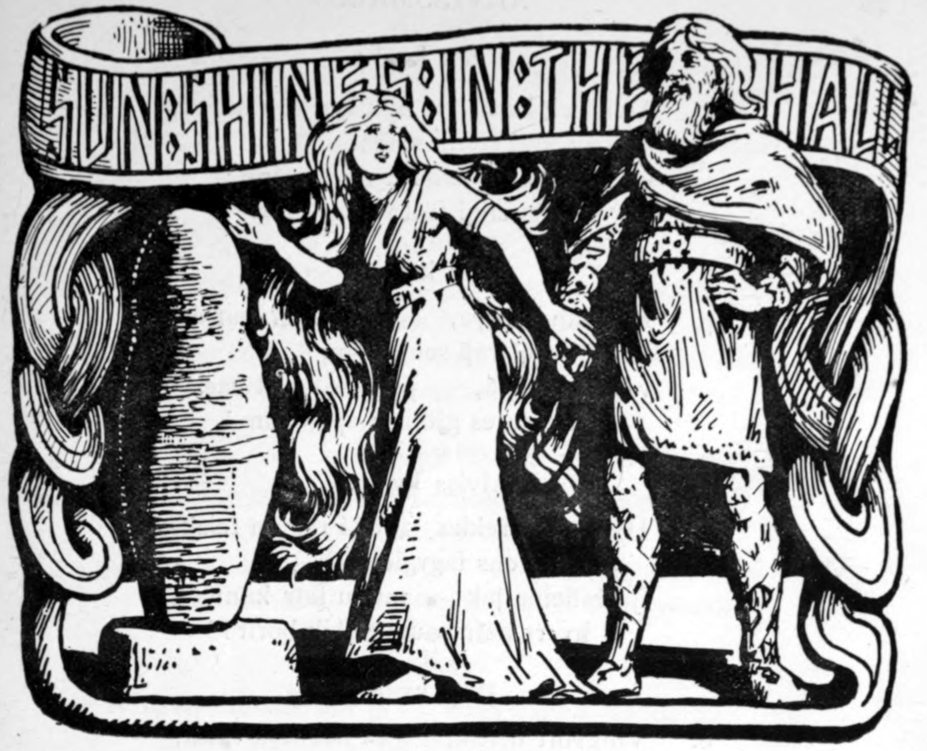 The dwarf Alvíss has turned to stone. Thor and Þrúðr hold hands. The list of illustrations in the front matter of the book gives this one the title Sun shines in the Hall.